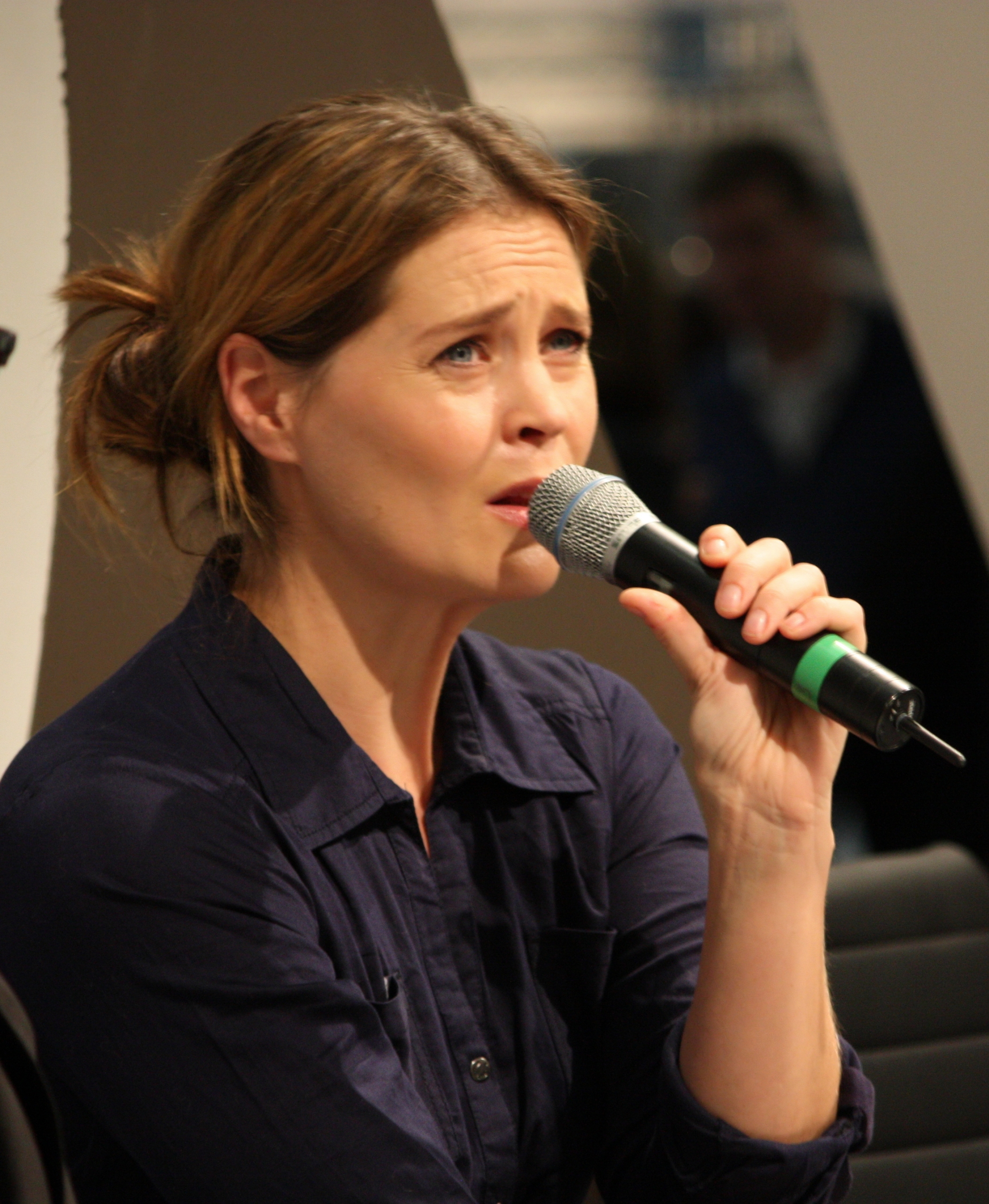 Finnish actress and writer Tiina Lymi at Helsinki Book Fair 2010